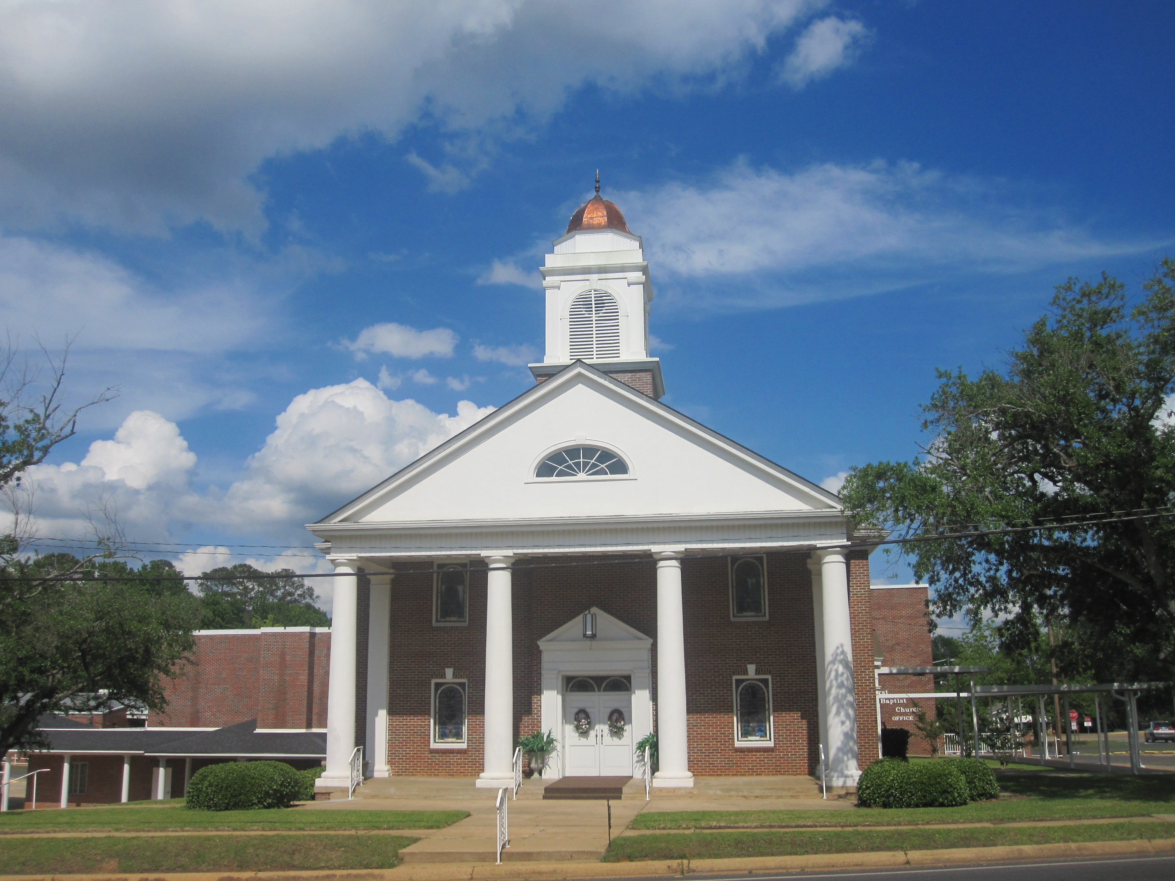 I took photo with Canon camera.